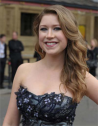 Hayley Westenra - Red Carpet - Classical Brit Awards, Royal Albert Hall, London, 14 May 2009